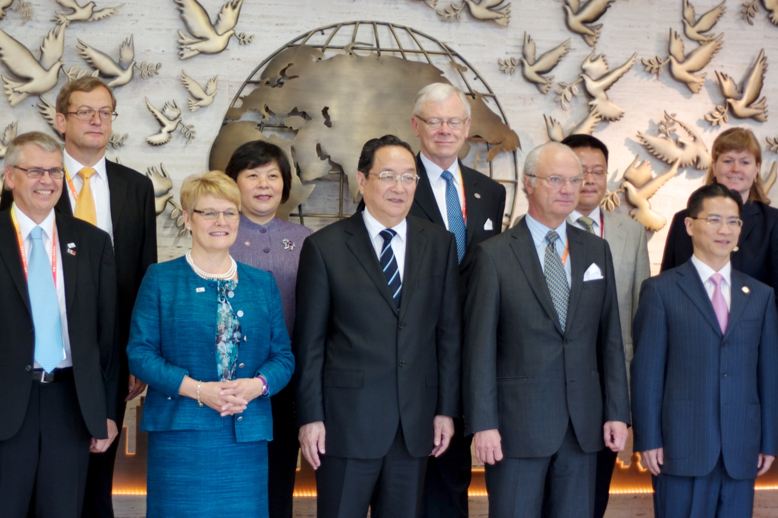 Deputy Prime Minister Maud Olofsson, CPC party chief in Shanghai Yu Zhengsheng 俞正声 and His Majesty the King Carl XVI Gustaf of Sweden, surrounded by other VIP. By: Tobias Andersson Åkerblom